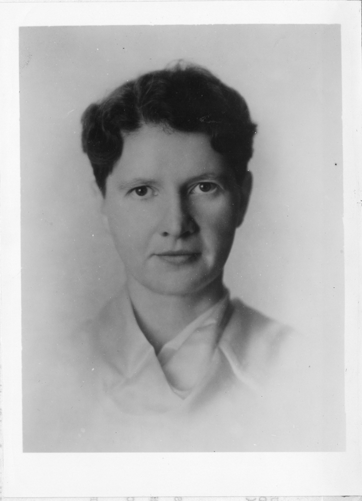 Wanda Margarite Kirkbride (1895-1983) was completing graduate work in chemistry at Columbia University when she met and married Clifford Harrison Farr. When Clifford died in 1928, while they were living in St. Louis, Wanda Farr carried on with her research and eventually became Director of the Cellulose Laboratories at the Boyce Thompson Institute for Plant Research in Yonkers, New York, doing pioneering work on cellulose synthesis and plastids